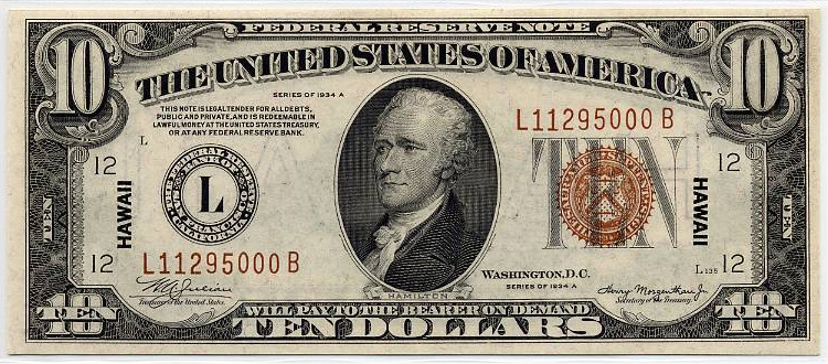 $10 HAWAII Overprint Note — with image of Alexander Hamilton.